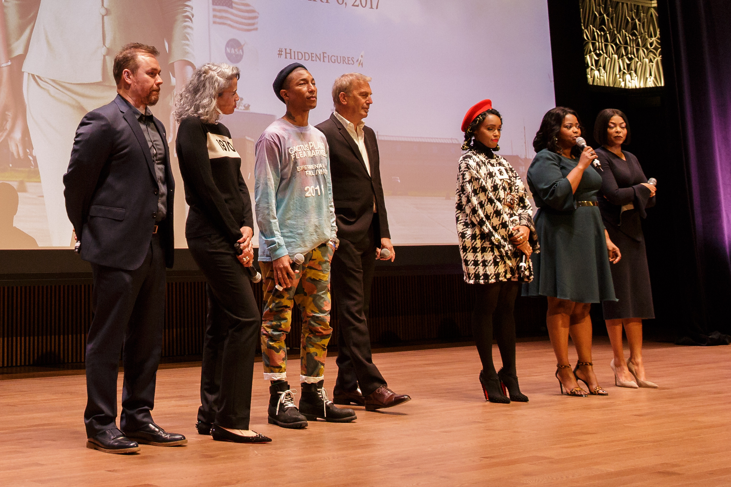 From left: director Theodore Melfi, producer Mimi Valdés, American singer-songwriter Pharrell Williams, American actor, film director, and producer Kevin Costner, American musical recording artist, actress, and model Janelle Monáe, American actress Octavia Spencer, and American actress and singer Taraji P. Henson, are seen on stage prior to a screening of the film “Hidden Figures” at the Smithsonian’s National Museum of African American History and Culture, Wednesday, Dec. 14, 2016 in Washington DC. The film is based on the book of the same title, by Margot Lee Shetterly, and chronicles the lives of Katherine Johnson, Dorothy Vaughan and Mary Jackson -- African-American women working at NASA as “human computers,” who were critical to the success of John Glenn’s Friendship 7 mission in 1962.